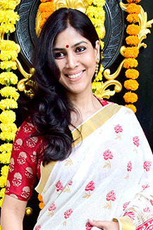 Sakshi Tanwar graces the Ganesha puja at Ekta Kapoor’s house